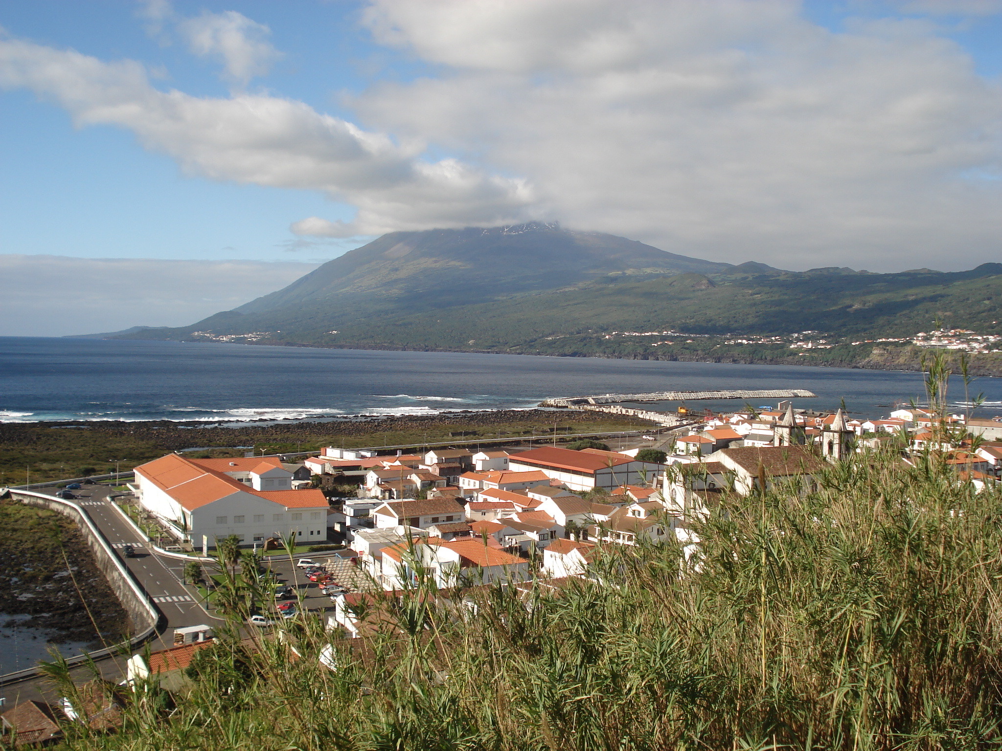 Lajes do Pico, looking towards the stratovolcano of Pico, Pico Island, Azores